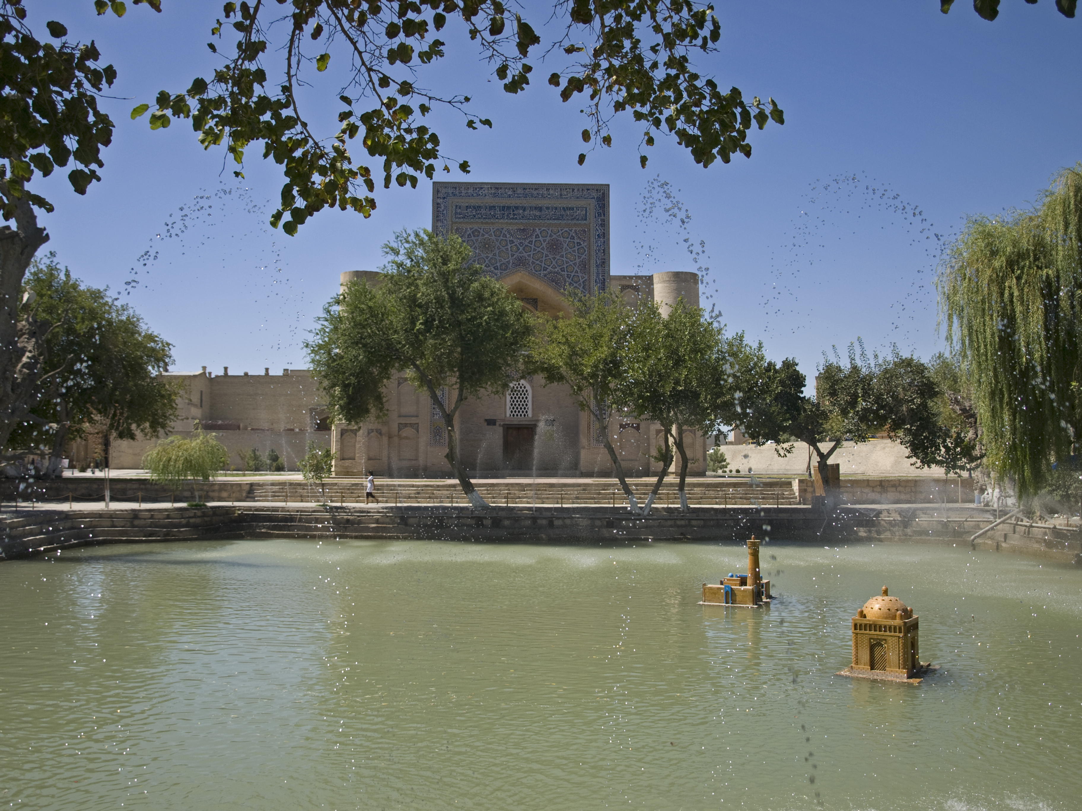 Lyabi-Hovuz and Nadir Divanbegi Madrasah, Bukhara